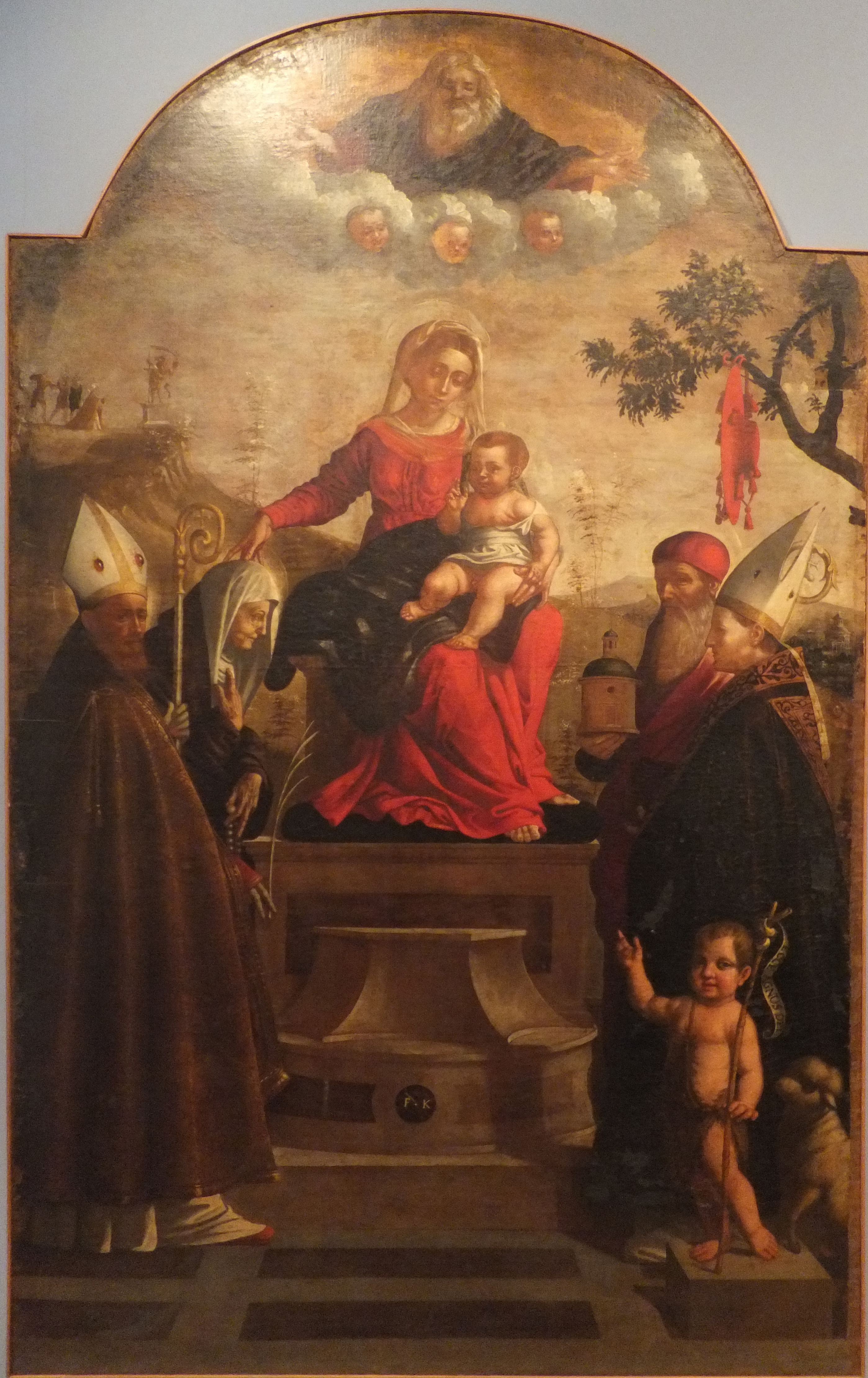 Detail of Saint Maxentia.